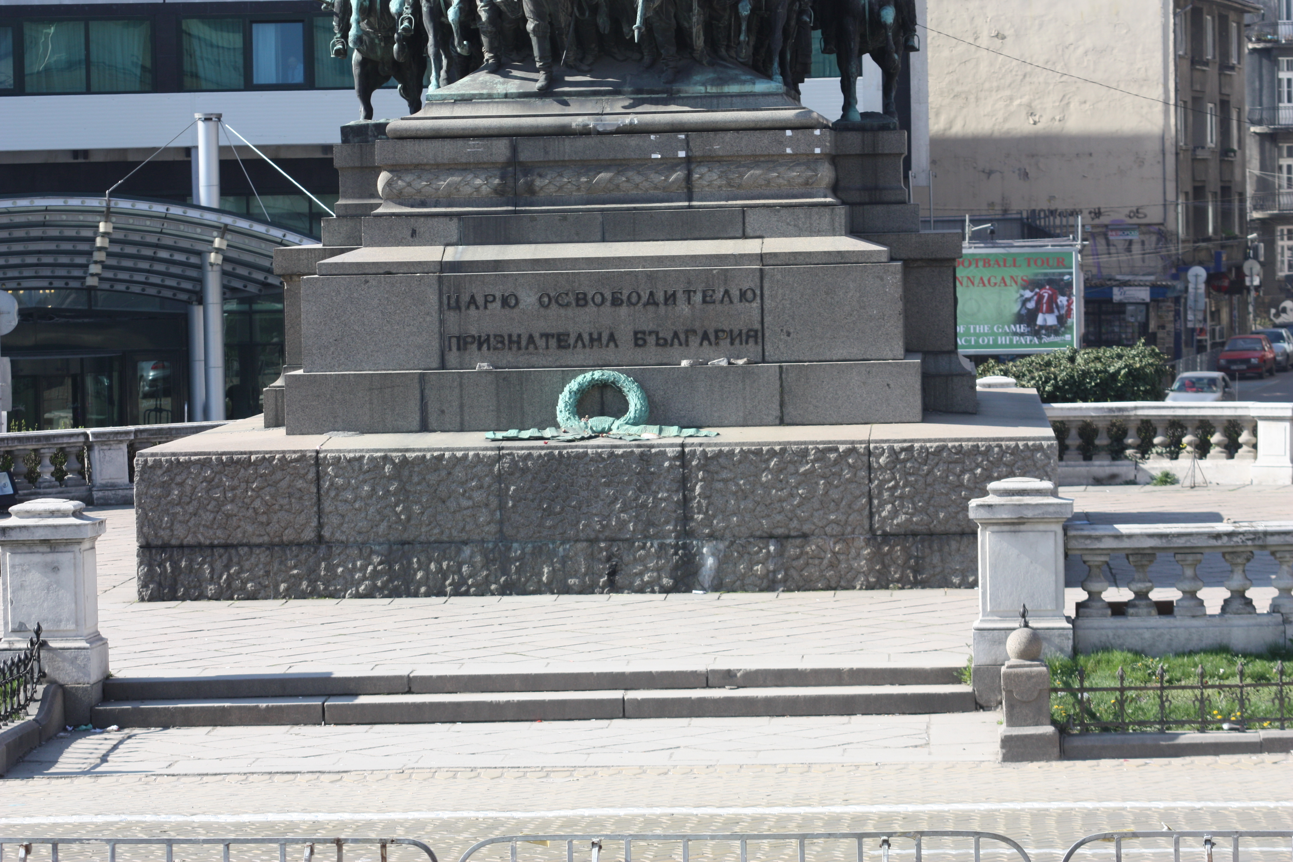 1907: Цар Освободител (паметник); Sofia, Bulgaria, "Zar Befreier"-Denkmal, Monument to the Tsar Liberator; Памятник Царю-Освободителю; Alexander II of Russia (liberated Bulgaria of Ottoman rule during the Russo-Turkish War of 1877-78.), Reiterdenkmal, from the italian sculptor Arnoldo Zocchi